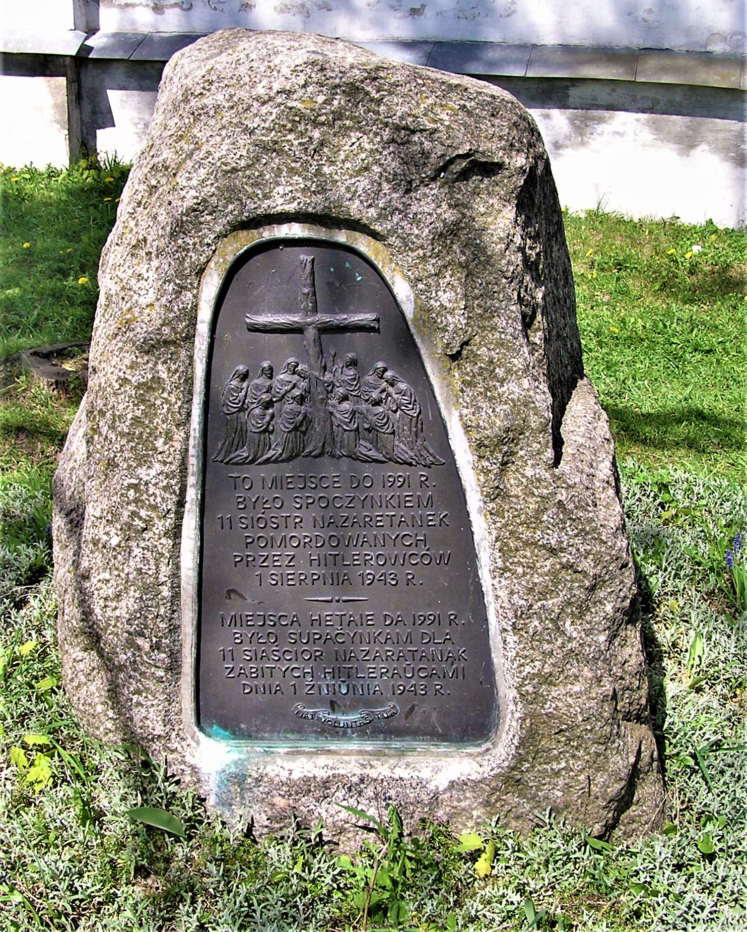 Monument near Parish Catholic Church in Navahradak